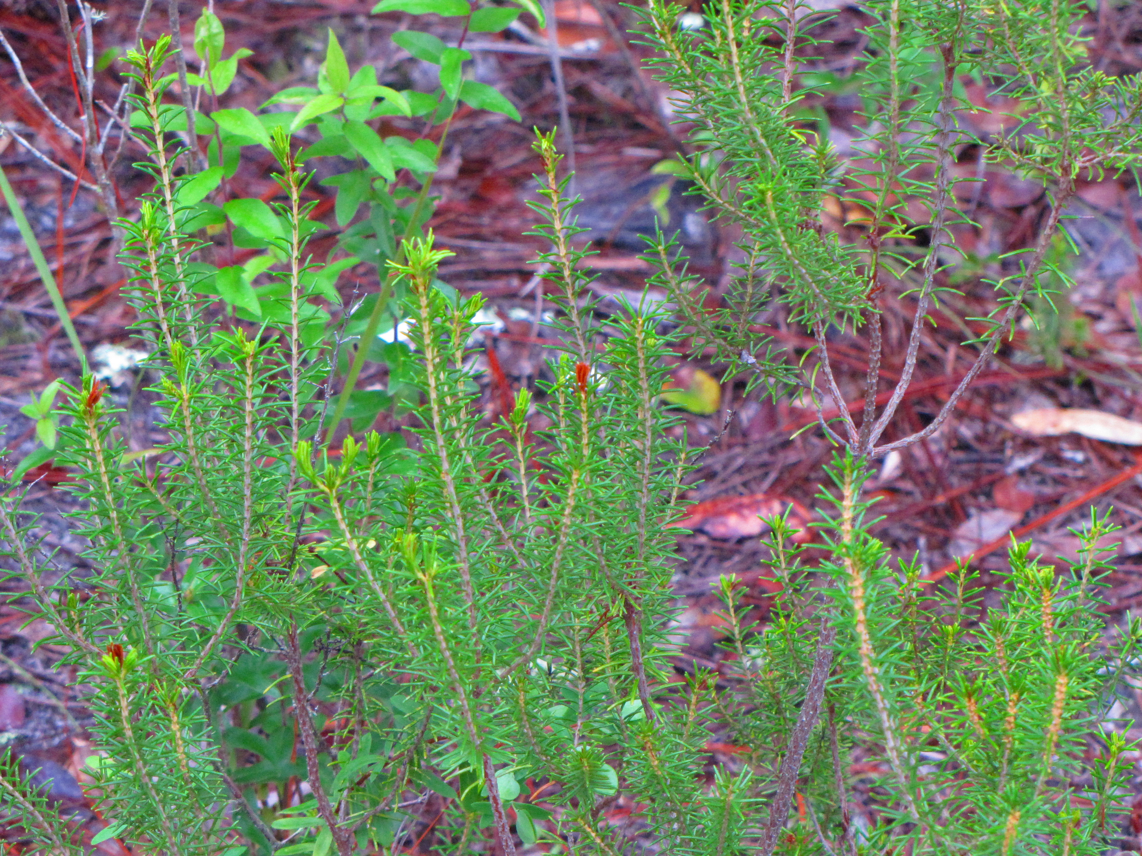 Ceratiola ericoides foliage, Johnson Pond Trail, Trailwalker Trail, Withlacoochee State Forest, Citrus County, Florida